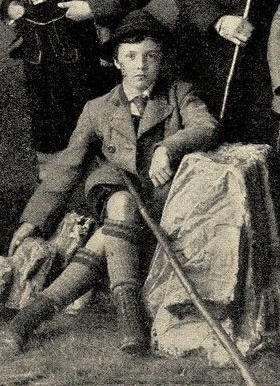 Duke Franz Joseph in Bavaria 1897. (cropped from File:Die Kaiserlichen Prinzen sowie die Herzoglich-Bayerischen Prinzessinnen und Prinzen in Tegernsee 1897.jpg)